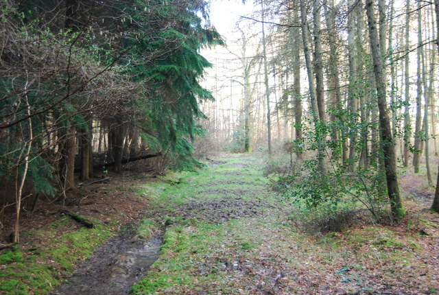 Hangers Way through Pheasant Wood The muddy nature of the path reflects the underlying, highly impermeable, Gault Clay